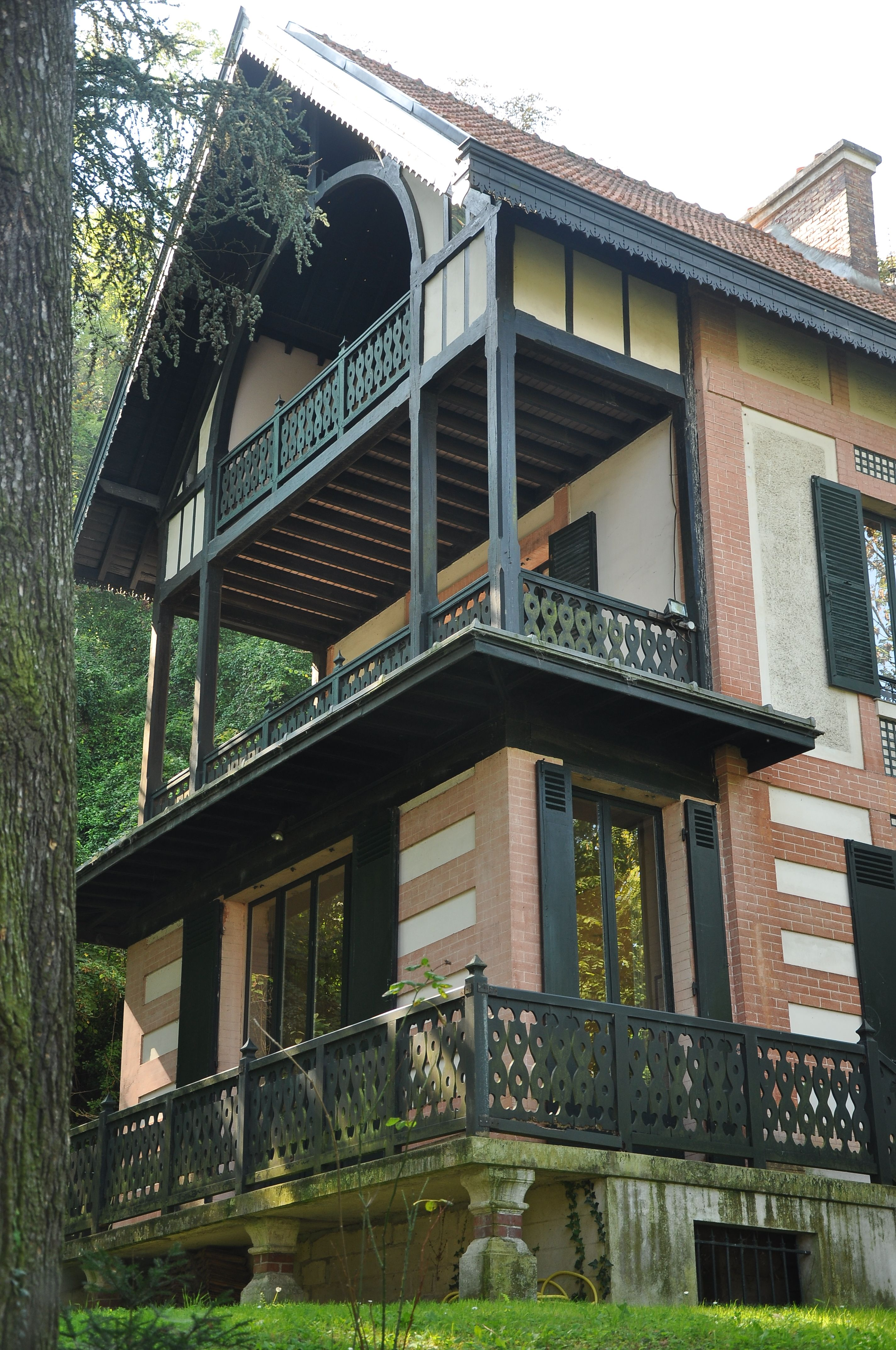 Ivan Tourgueniev's Datcha at Bougival in France